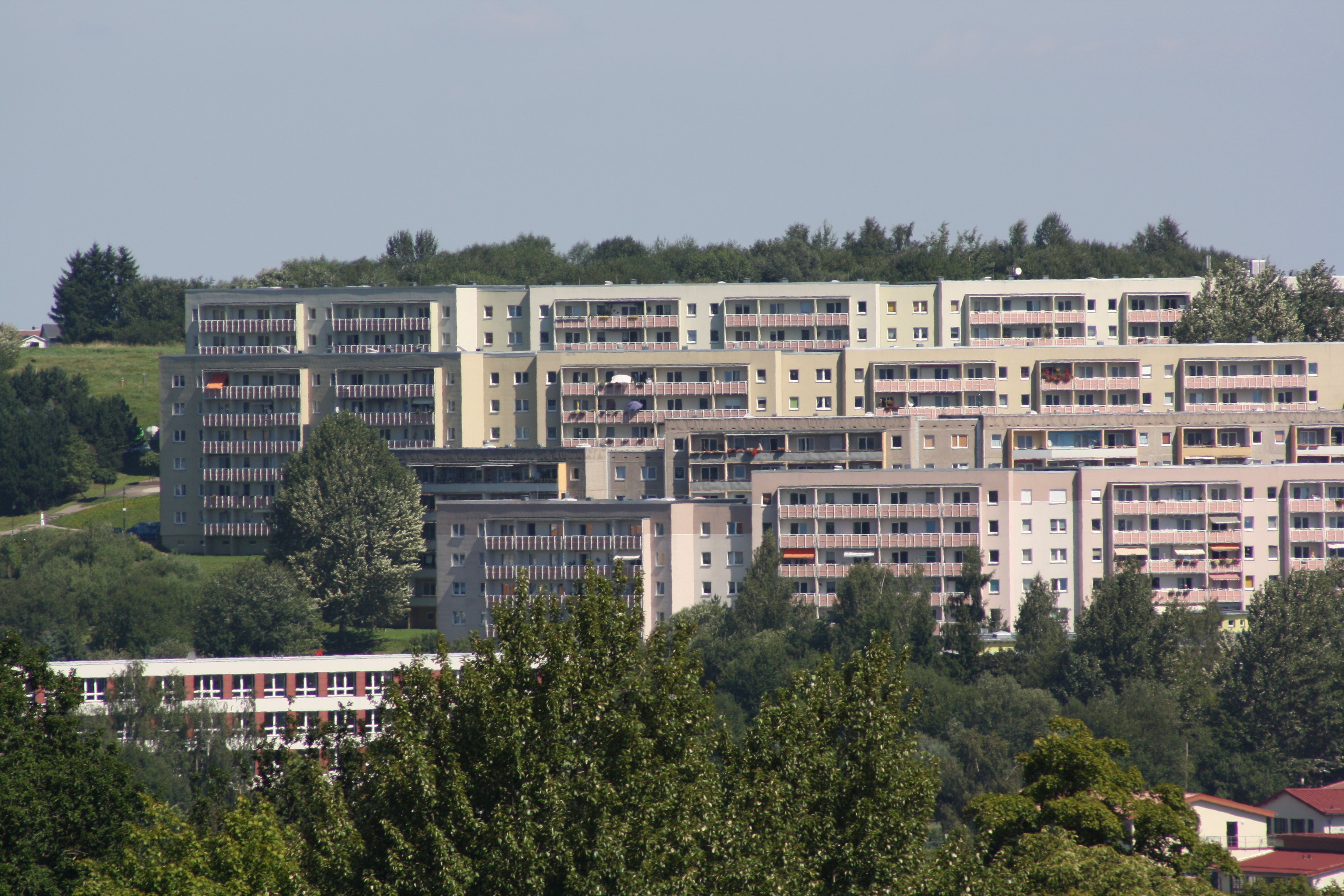 Germany, Thuringia, Ilmenau, quarter "Poerlitzer Hoehe", western part of Humboldtstreet